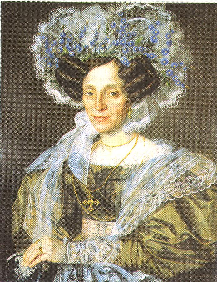 Barbora Smetanová, mother of Bedřich Smetana, 1832